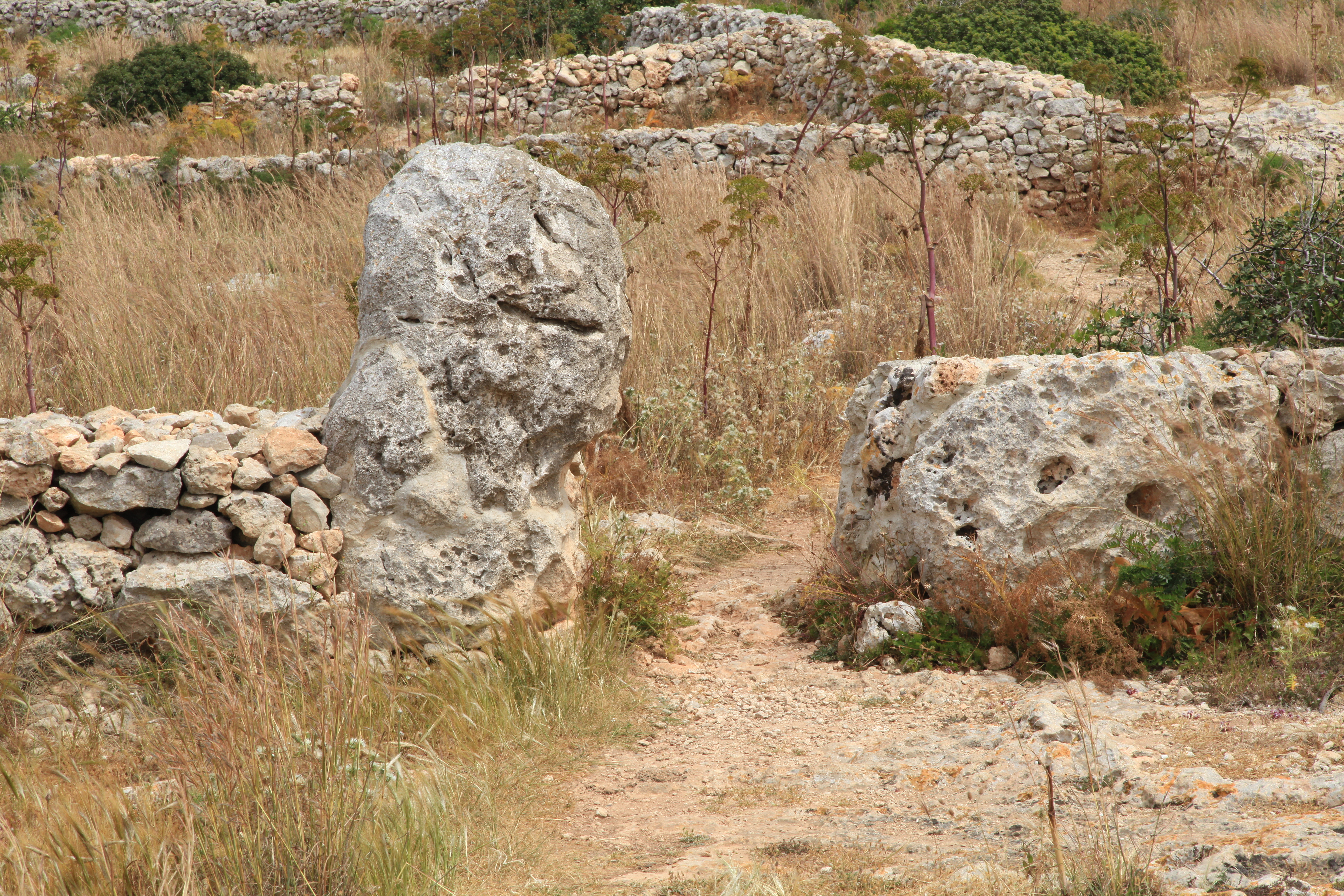 Remains of Xemxija Temple II nowadays used as gate stones in a dry stone wall, Xemxija Heritage Trail in St. Paul's Bay, Malta